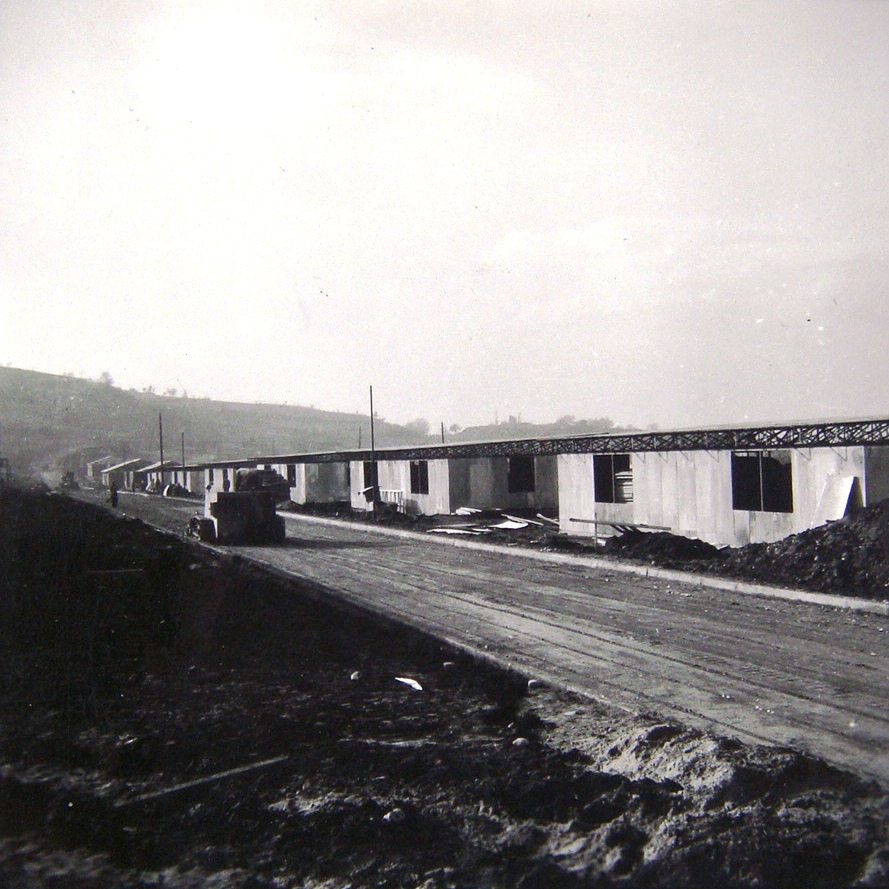 1963 Skopje earthquake: Apartments in the settlement Zdanec This media file is produced by Wikipedian in Residence in Category:Wikipedian in Residence at DARM in 2016.